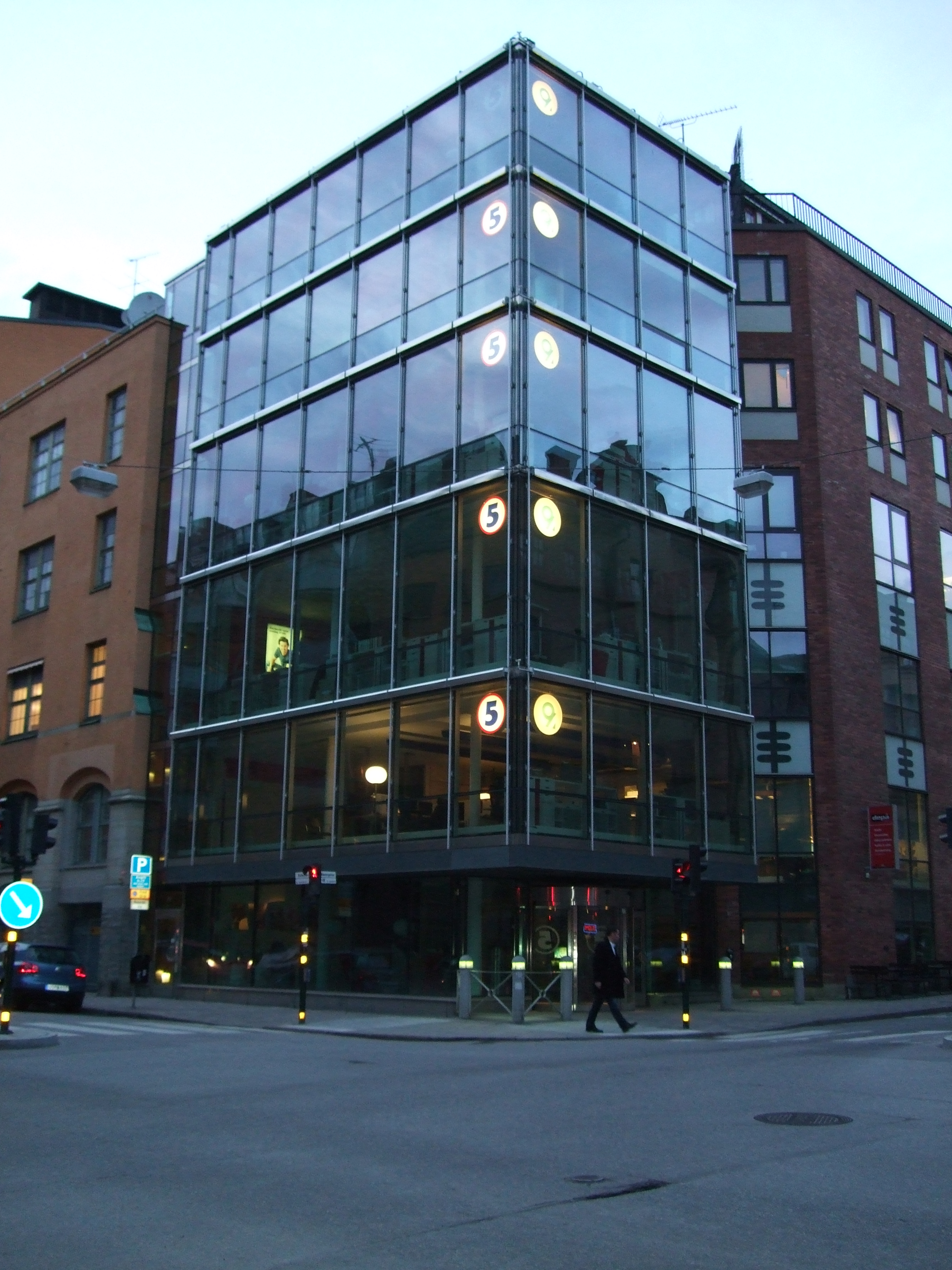 The Kanal5-building at the intersection of Rådmansgatan and Döbelnsgatan in Stockholm.